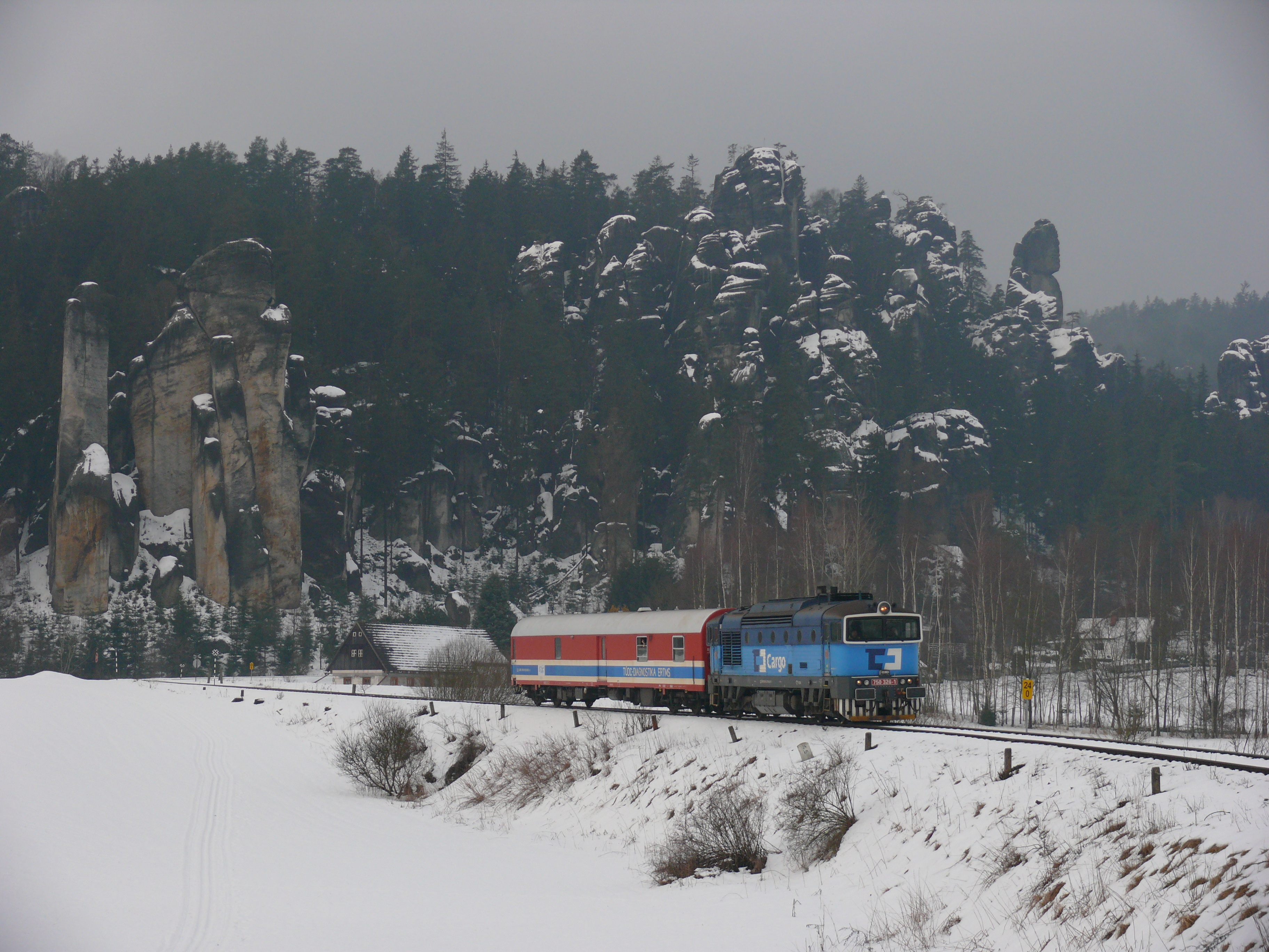 Measuring car MV ERTMS1 of SŽDC.